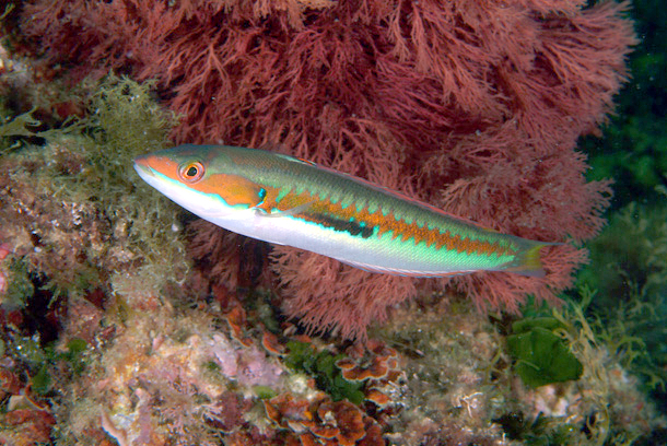 Coris julis (male) photographed near Livorno (Tuscany, Italy). Photo by Stefano Guerrieri.